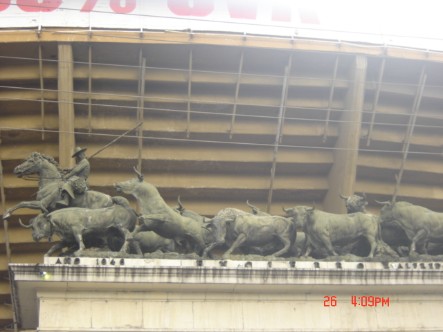 Image of entrance to the Plaza de toros de Mexico bullring, Mexico city